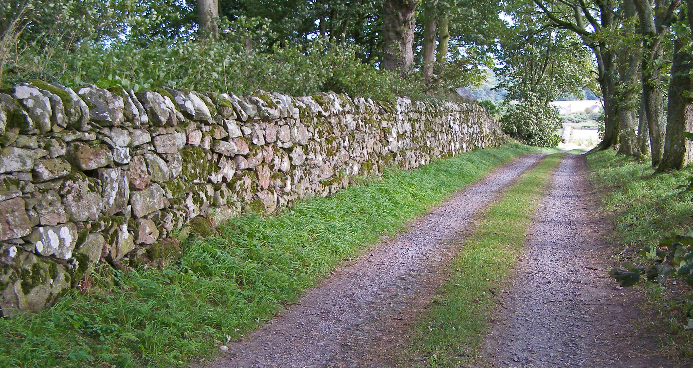 subject:drystone wall 17th cent at Muchalls Castle, Scotland date:aug, 2006 photographer: self